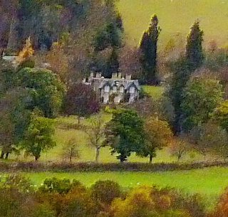 House centre of Photo. Killiechassie House is a 19th century Estate house, situated on the banks of the River Tay, near Aberfeldy, in Perth and Kinross. The current owner of the house is J. K. Rowling, the author of the Harry Potter series, who purchased it in November 2001 for the sum of approximately £600,000. Since then the value of the house has increased significantly, with the estimated value rising to £1.5 million. The house is now ranked at #91 in a list of the Top 100 Finest Homes of the UK In the 17th century, Reverend Robert Stewart, the minister of Killin, bought each of his sons an estate north of the Tay, giving Killiechassie to the eldest. The house was built by a Scottish general in 1865, to replace a much older building. Locals say that Bonnie Prince Charlie sheltered under a tree on the estate during his retreat north to Inverness in 1746, and Robert Burns (Scotland's national poet# took walks nearby. J.K. Rowling married Neil Murray in the library of their house. There is a lake near the house which is said to be haunted by a water spirit. The house is known to encompass two Halls, a Drawing room, Morning room, Dining room and Library. Wikipedia .